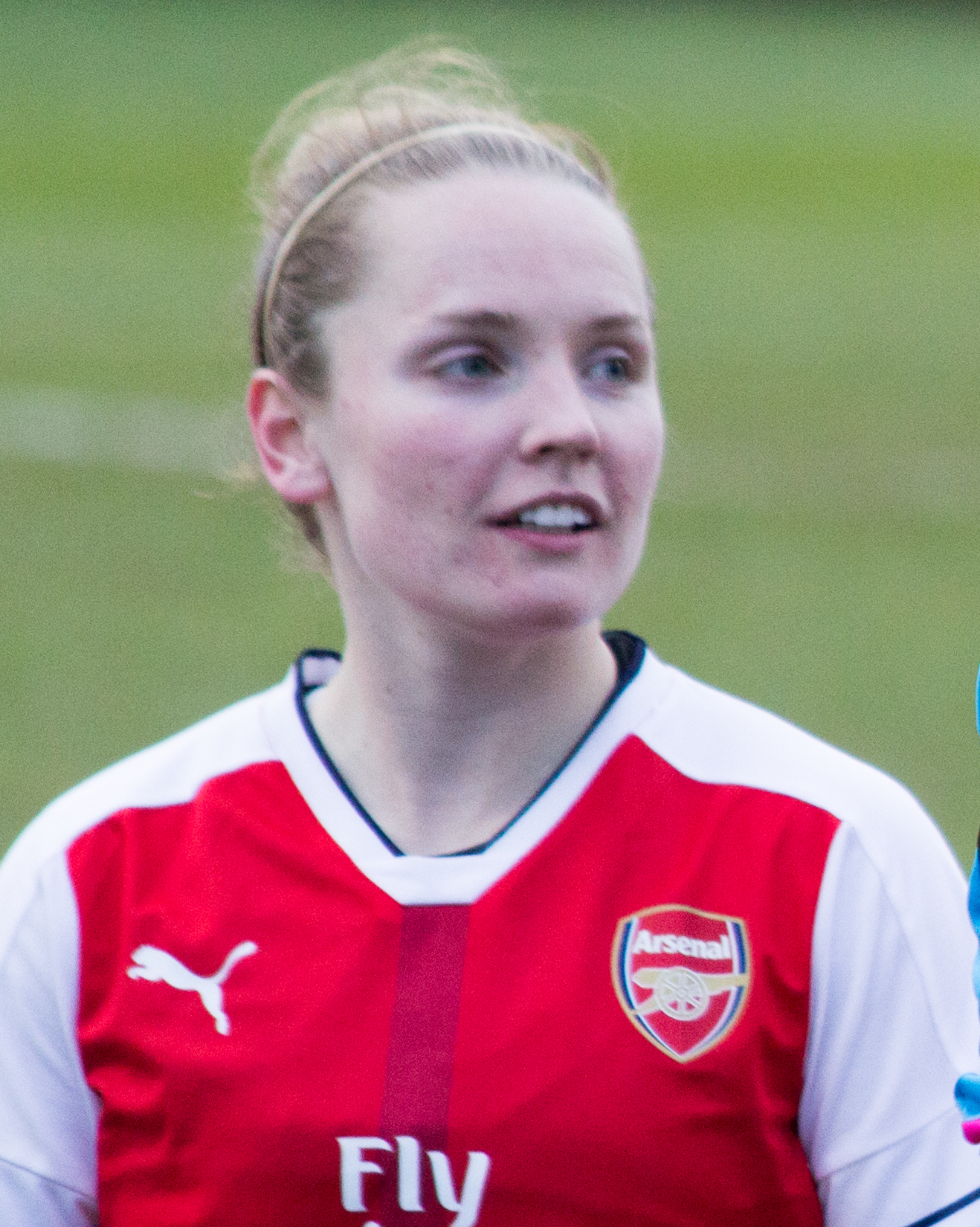 Arsenal LFC (Red) v Kelly Smith All-Stars XI (Yellow), 19 February 2017 – post-match